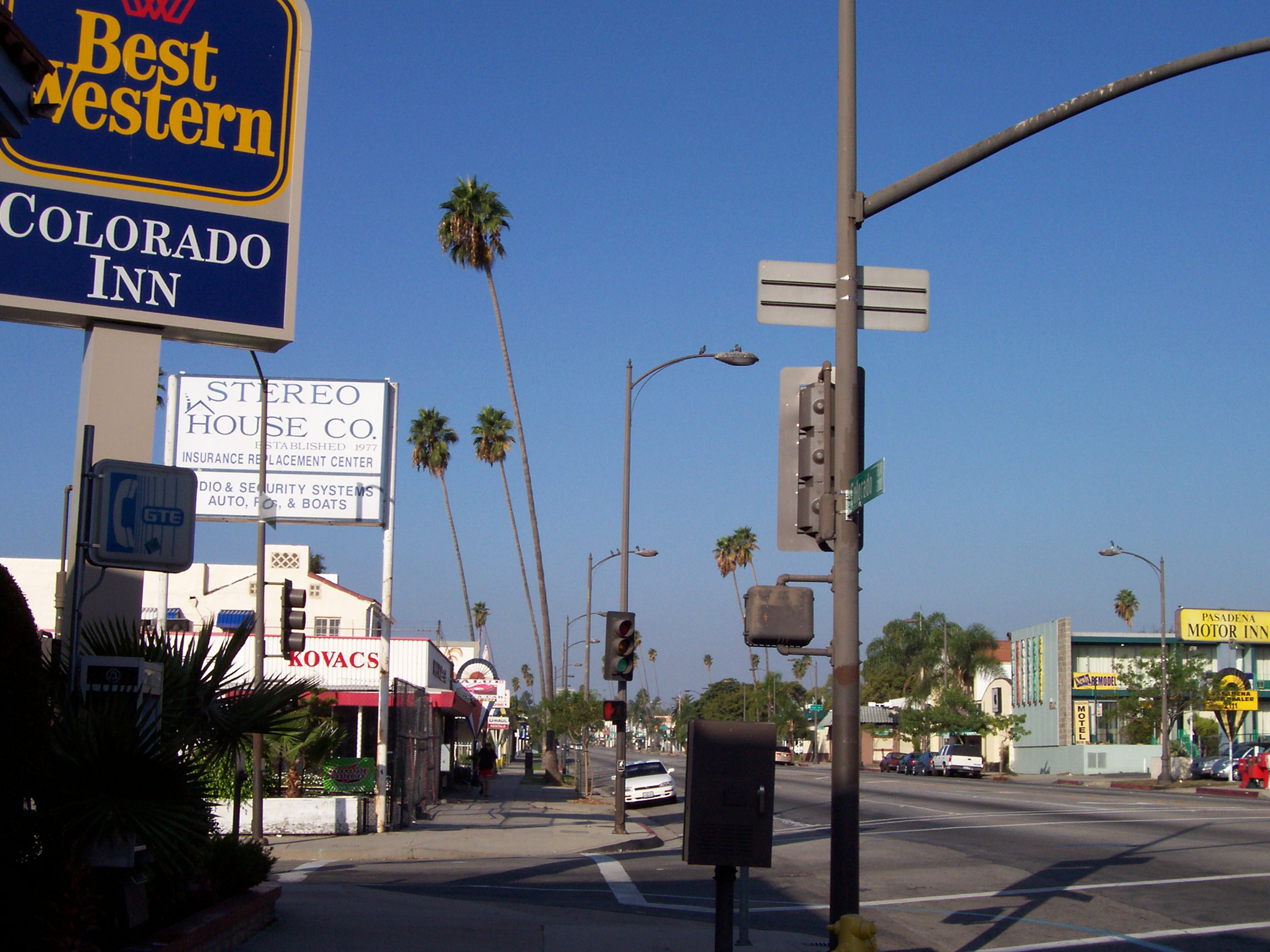 Colorado Blvd.